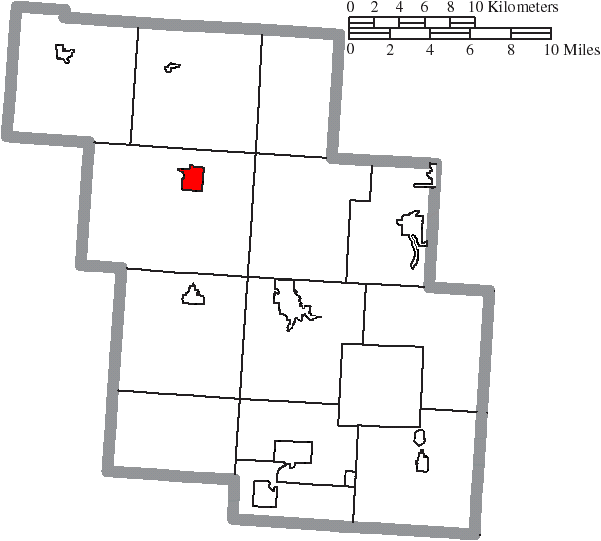 Map of the municipal and township boundaries of Perry County, Ohio, United States, as of the 2000 census, with the location of the village of Somerset highlighted. Township borders are shown only in unincorporated areas in order to differentiate incorporated and unincorporated areas more clearly.